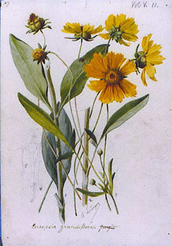 Coreopsis grandiflora (watercolour, pen & ink and pencil)